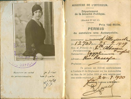 First woman permission toi drive in Egypt 1929